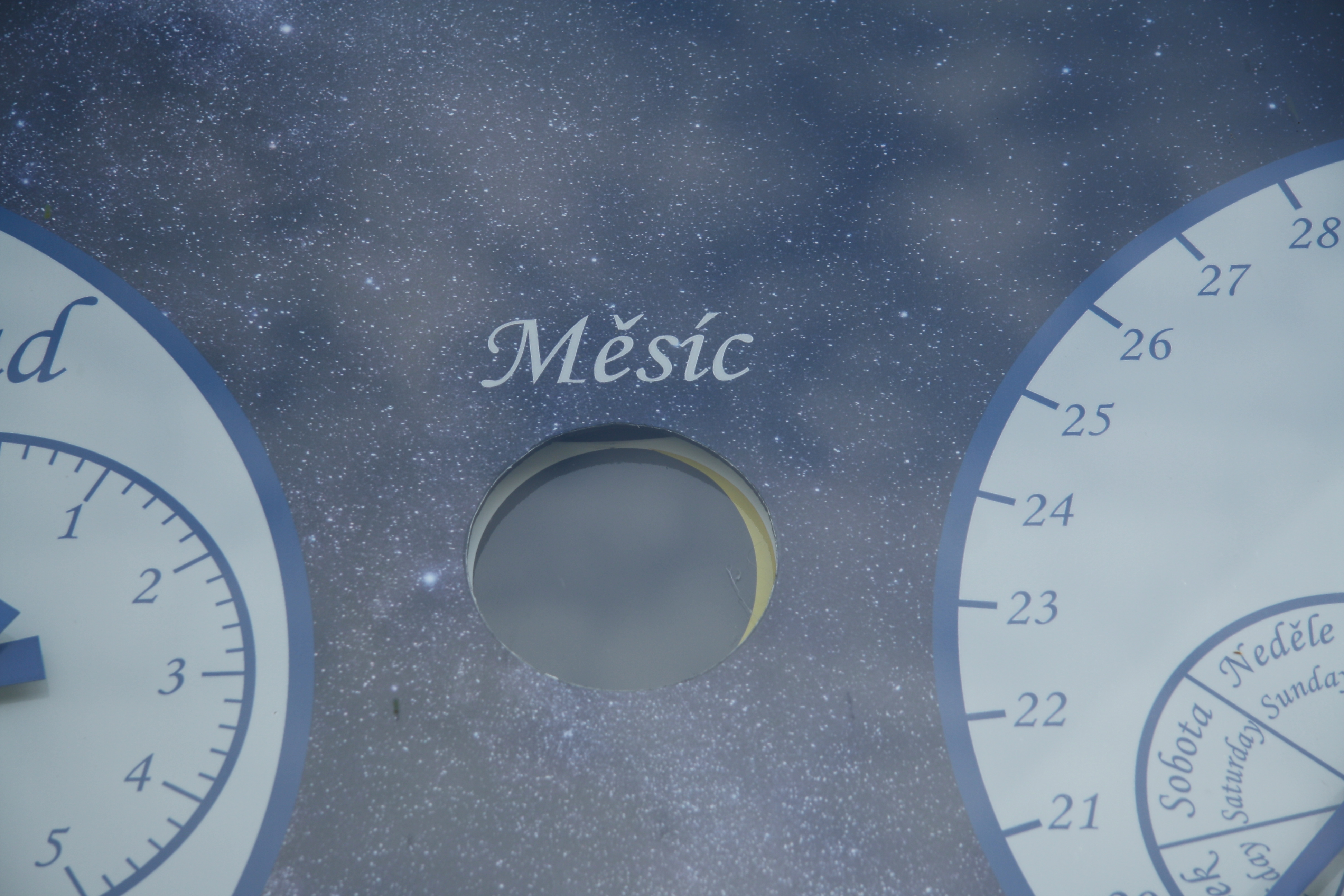 Moon phase at Astronomical clock near observatory in Třebíč, Třebíč District.